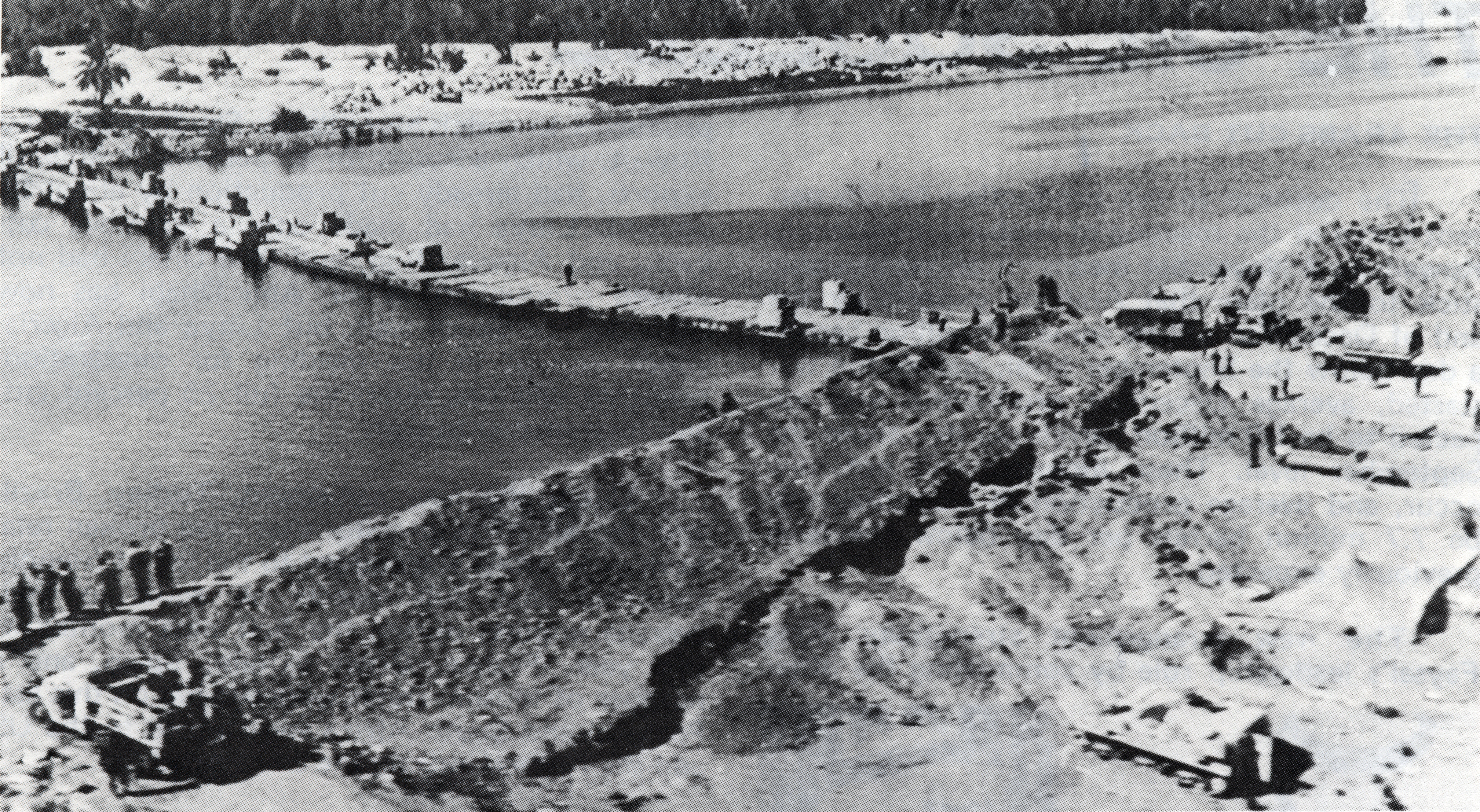 Israeli bridge over the Suez Canal during the Arab-Israeli War. From the booklet "President Nixon and the Role of Intelligence in the 1973 Arab-Israeli War." For more information, visit